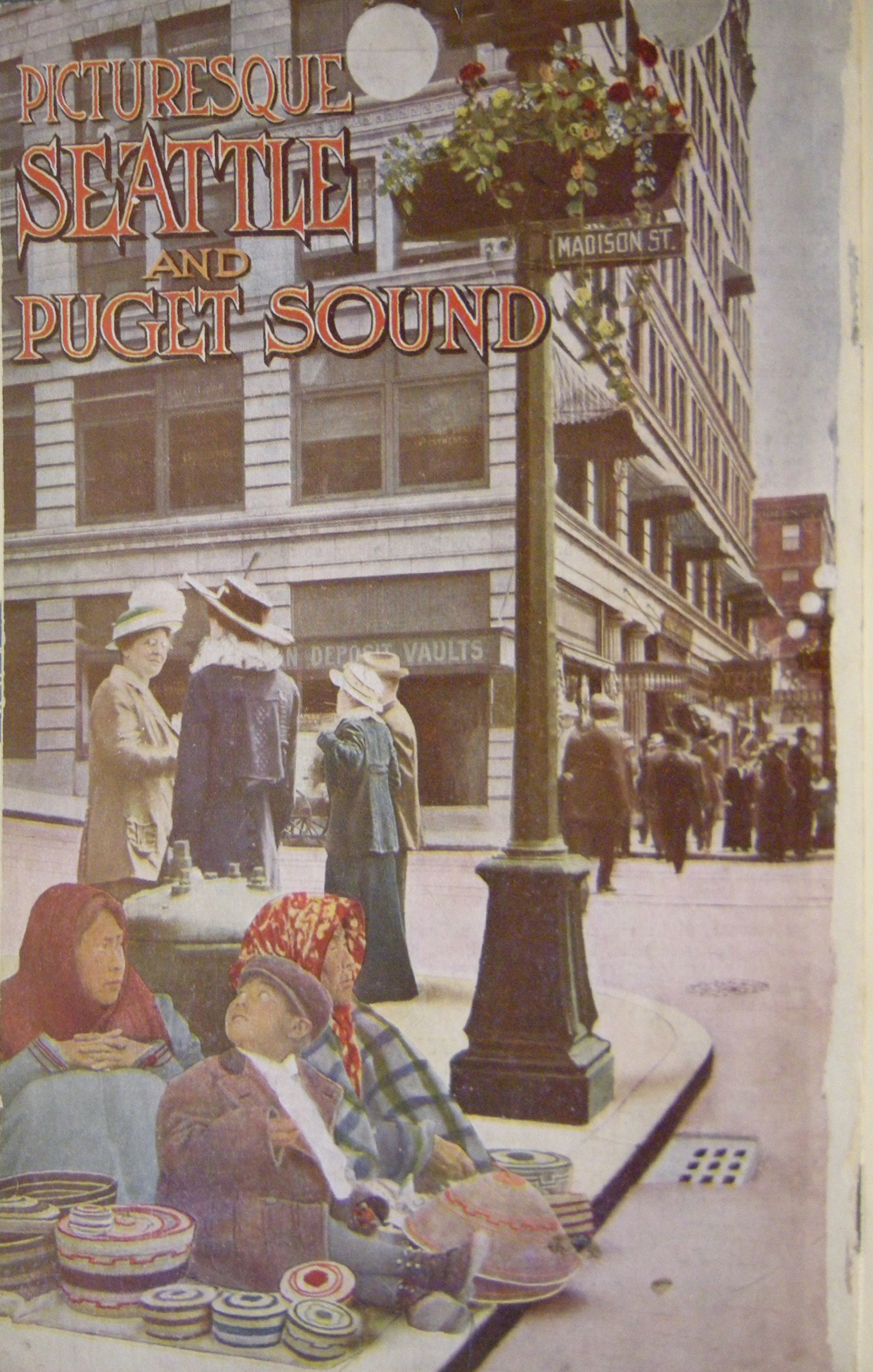 Cover of Picturesque Seattle and Puget Sound (Seattle Chamber of Commerce, c. 1915). Indian sidewalk vendors selling baskets on Second Avenue at the corner of Madison Street, Seattle, Washington, 1912. Clearly, this picture has been hand-tinted. It is likely that it is actually a good photo-collage, rather than a single photograph. An image of these same three people appeared in the Seattle Post-Intelligencer in 1912. They are identically dressed and the child is clearly the same age in both images. This image of the vendors appears to be a mirroring of part of that photo, with the baskets moved.